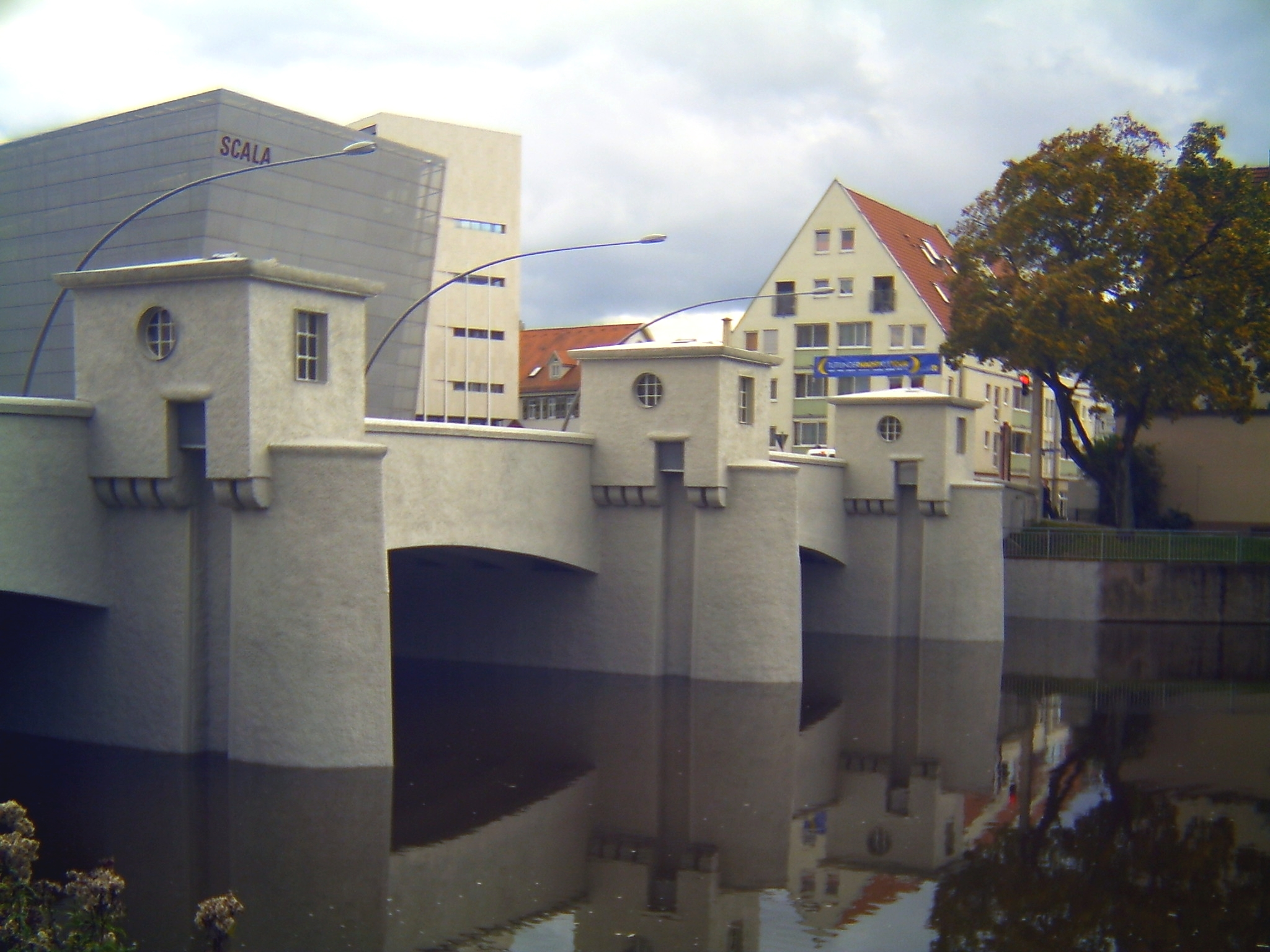 The danube at the Great bridge in Tuttlingen